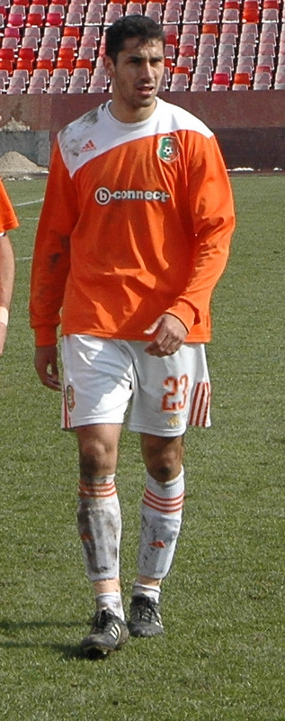 Petar Zanev